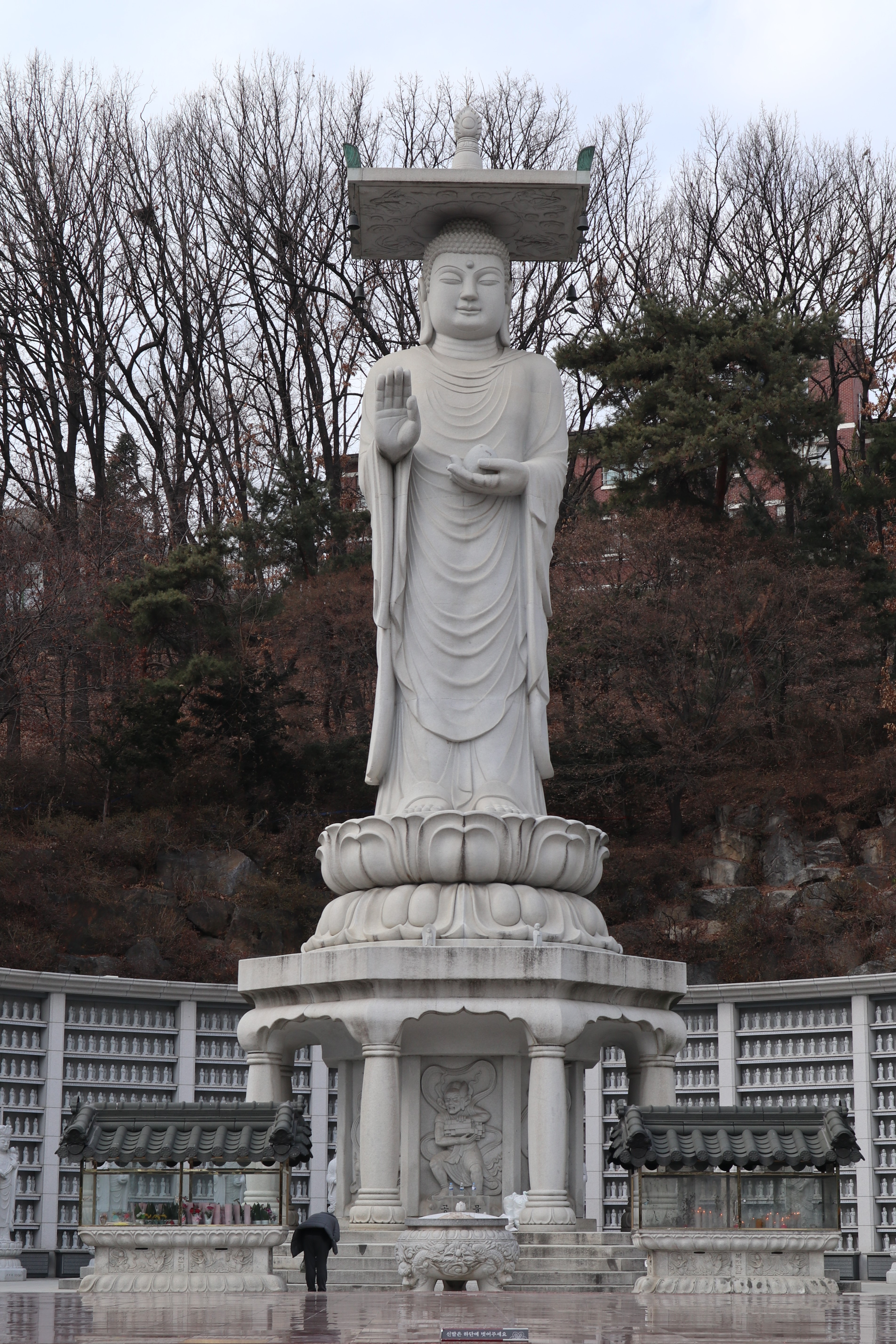 23-meter Maitreya at Bongeunsa